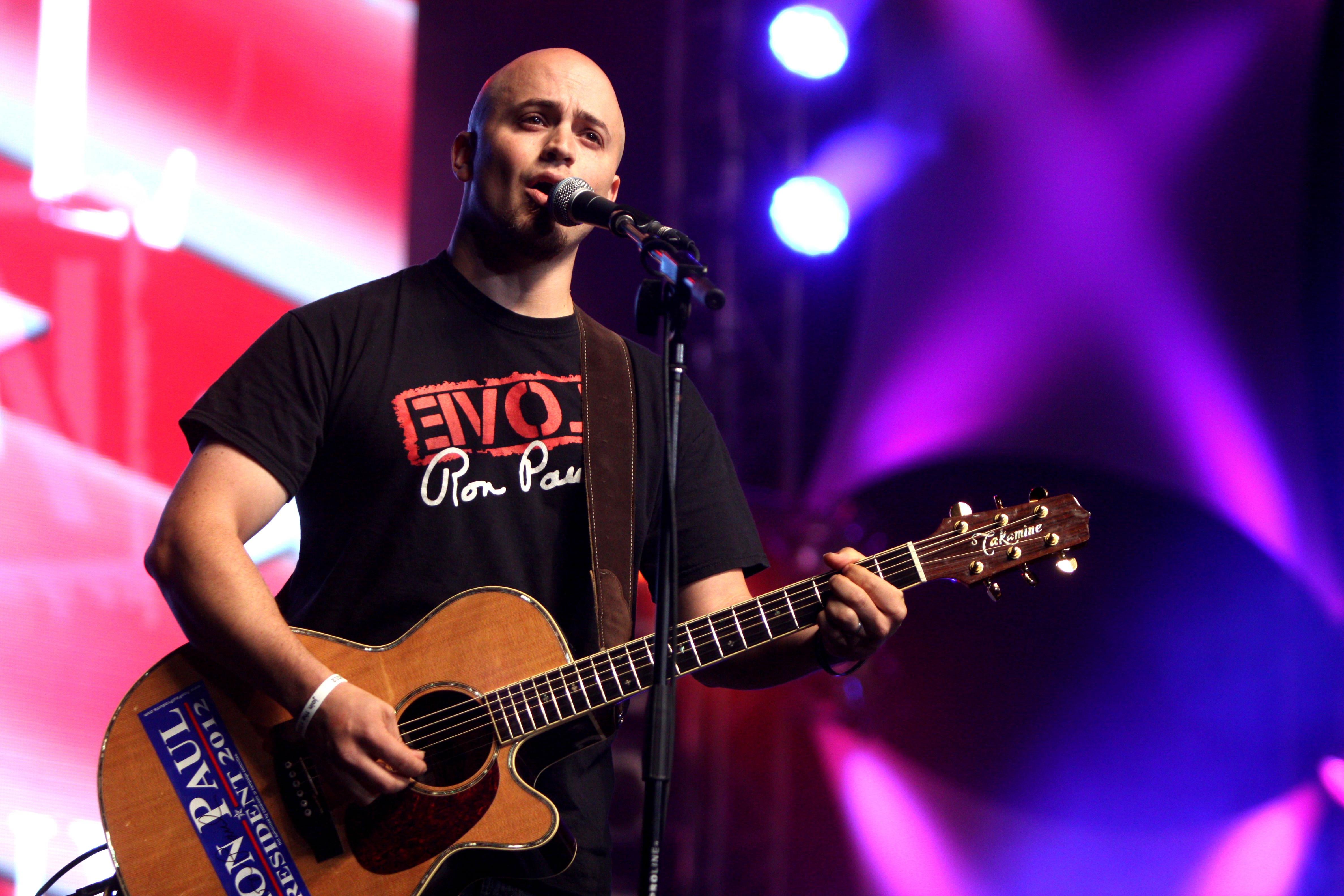 Jordan Page performing at Ron Paul's "We Are the Future" rally in Tampa, Florida.